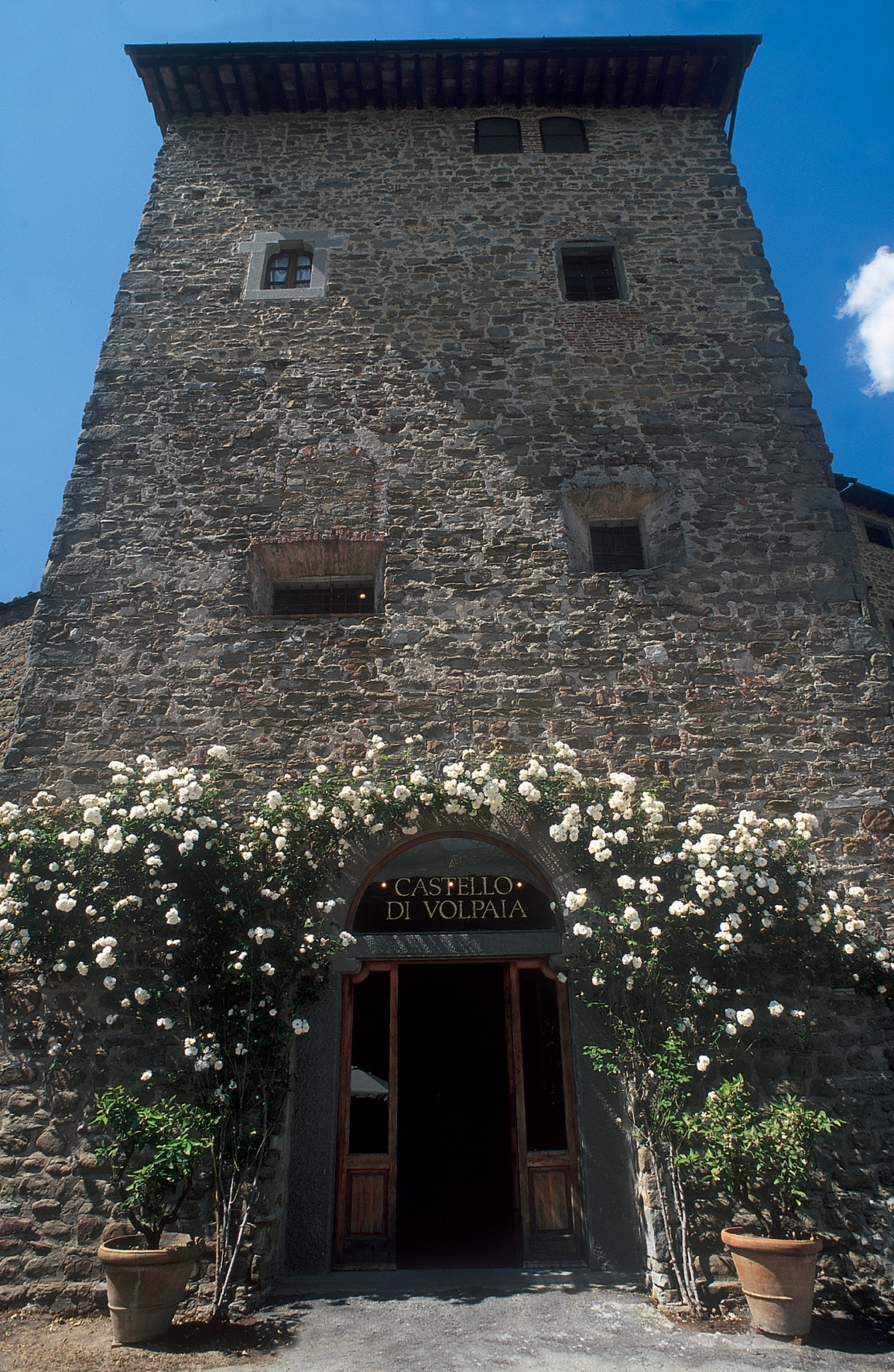 Square tower of Volpaia now wine shop of the Castello di Volpaia winery.